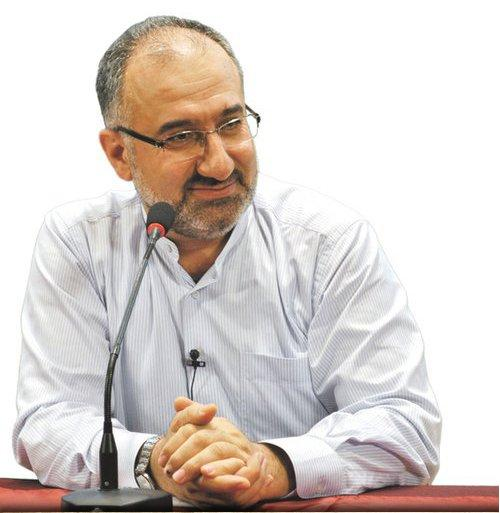 Mustafa Islamoglu muslim scholar